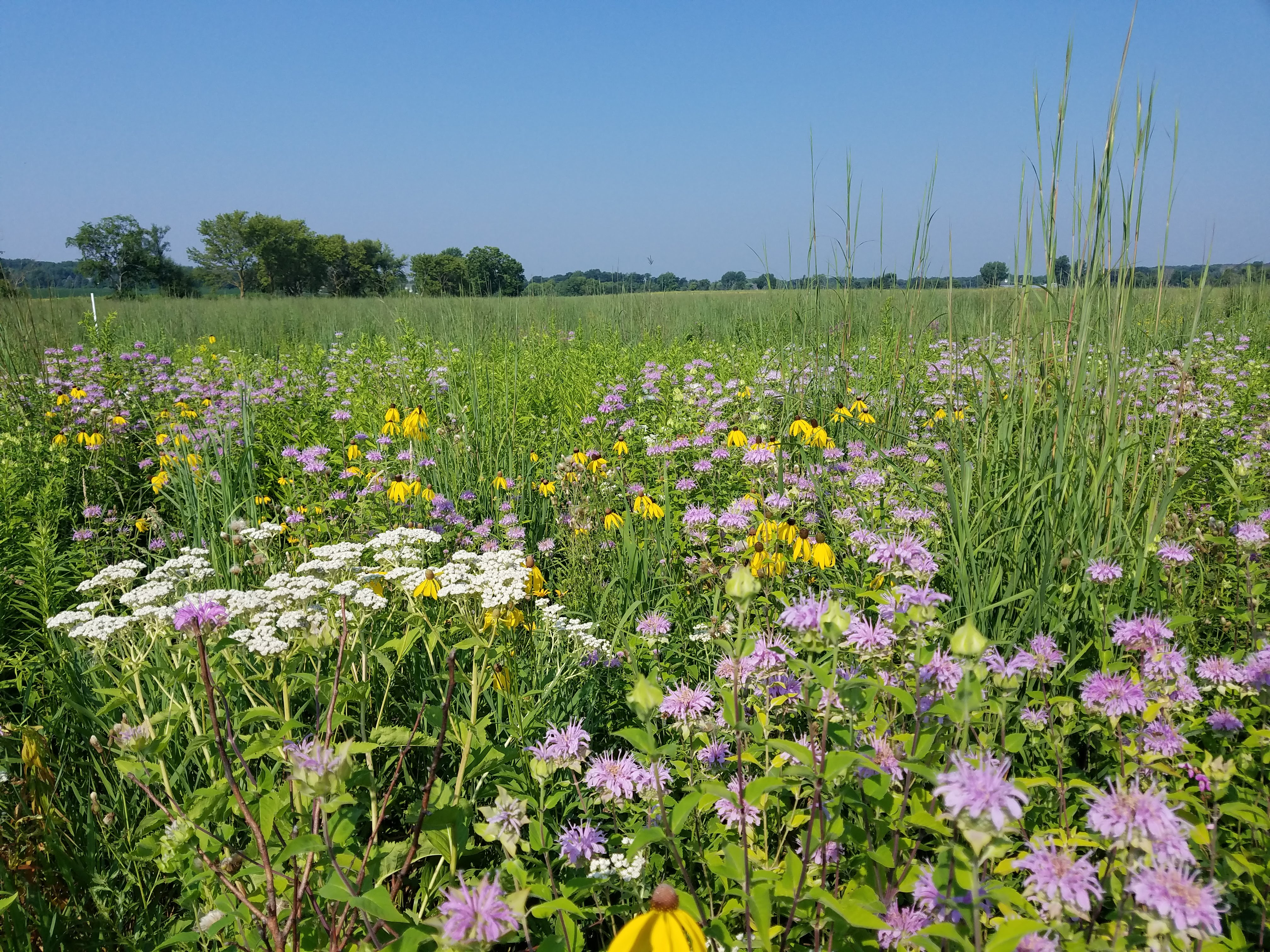 Prairie planting on former agricultural field in DuPage County, Illinois, US. Depicts Parthenium integrifolium, Monarda fistulosa, Andropogon gerardii, Ratibida pinnata.